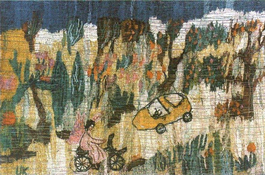 Tkanina Urszuli Kołaczkowskiej "Spotkanie w raju", 2000